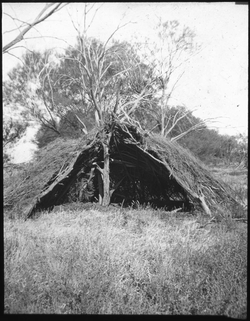 Duguid, Charles, 1884-1986 Title devised by cataloguer based on acquisitions documentation.; Part of the collection: Charles Duguid collection of photographs of Aboriginal Australians at Ernabella Mission and other locations, ca. 1930-1950.; Inscription: "House of white man, also woman and five 1/2 castes" --In ink on label on mount.; Also available in an electronic version via the Internet at: .au/nla.pic-vn4404670. Persistent URL .au/nla.pic-vn4404670